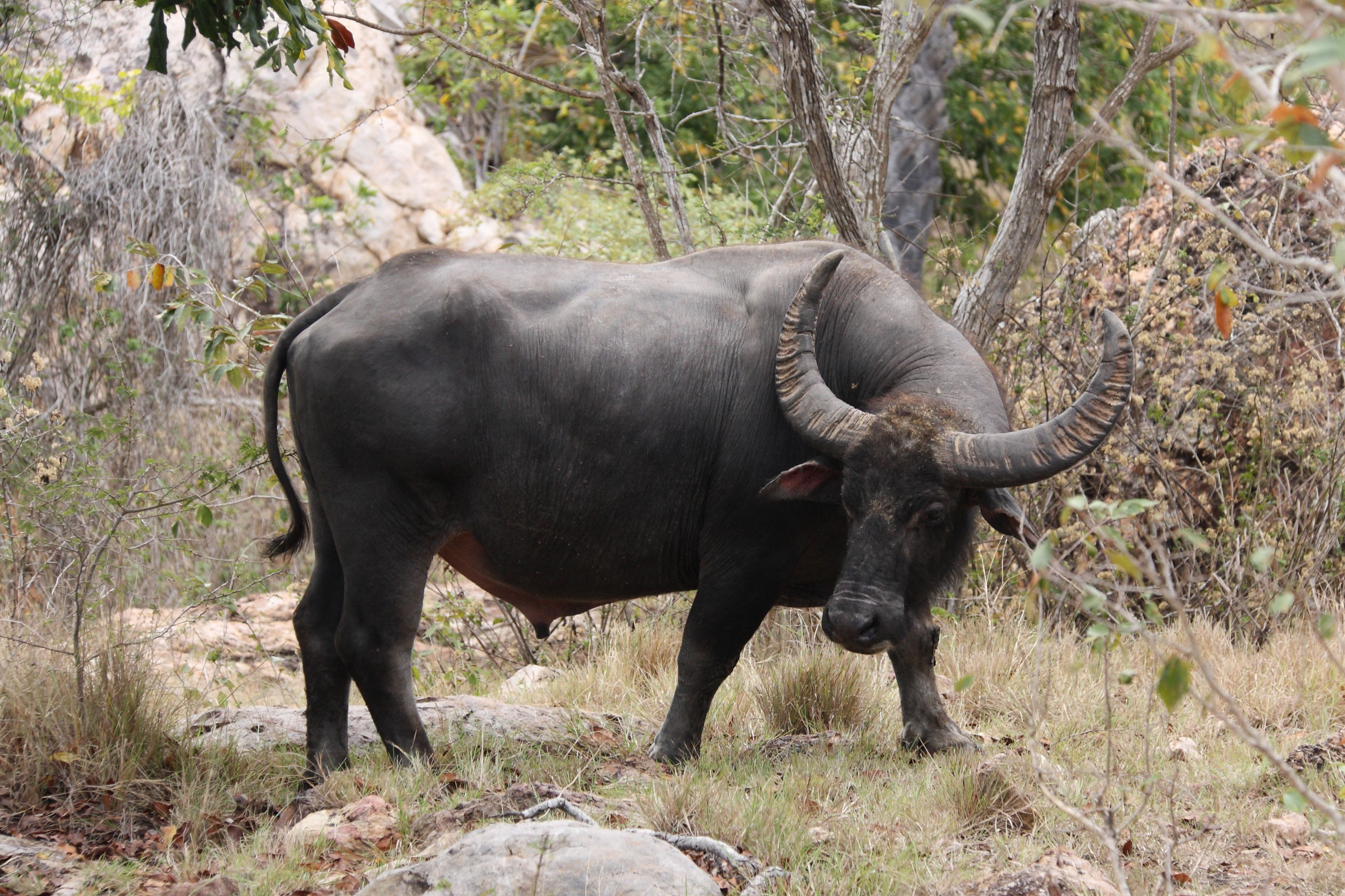 Water buffalo (Bubalus bubalis) at Rinca Island, Indonesia